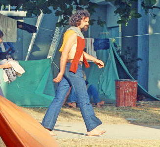 Jerry Rubin, activist at Flamingo Park during the 1972 Republican National Convention - Miami, Florida.